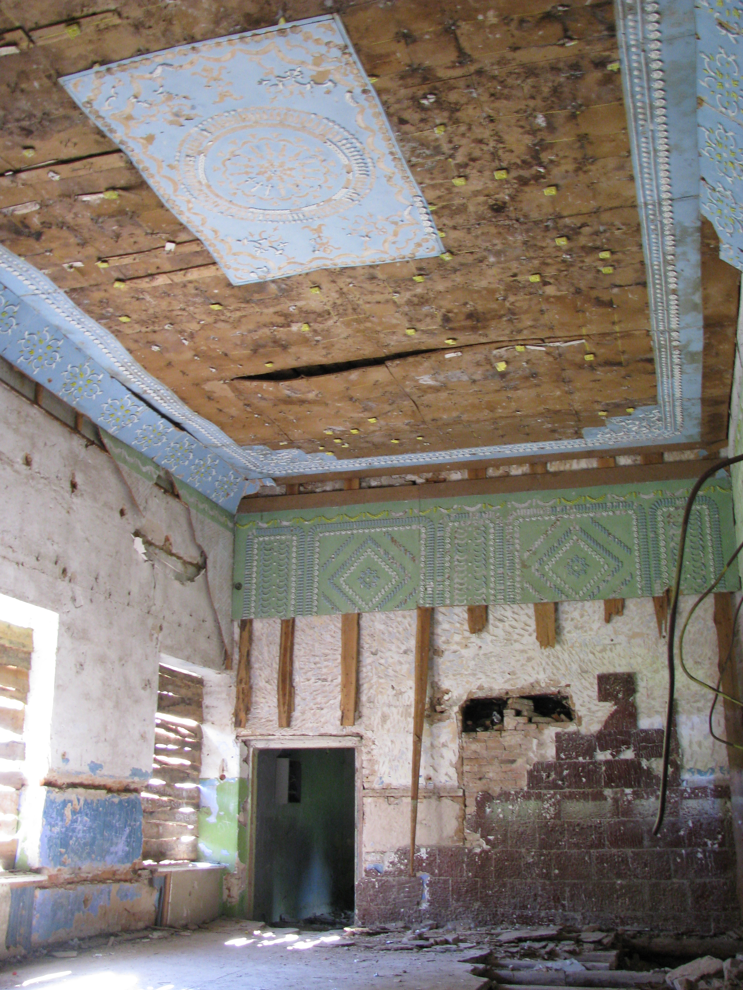 Беларуская (тарашкевіца): Будынак былога палаца. в. Паланэчка This is a photo of Belarusian heritage monument. Reference number: 113Г000061 ( WLM)